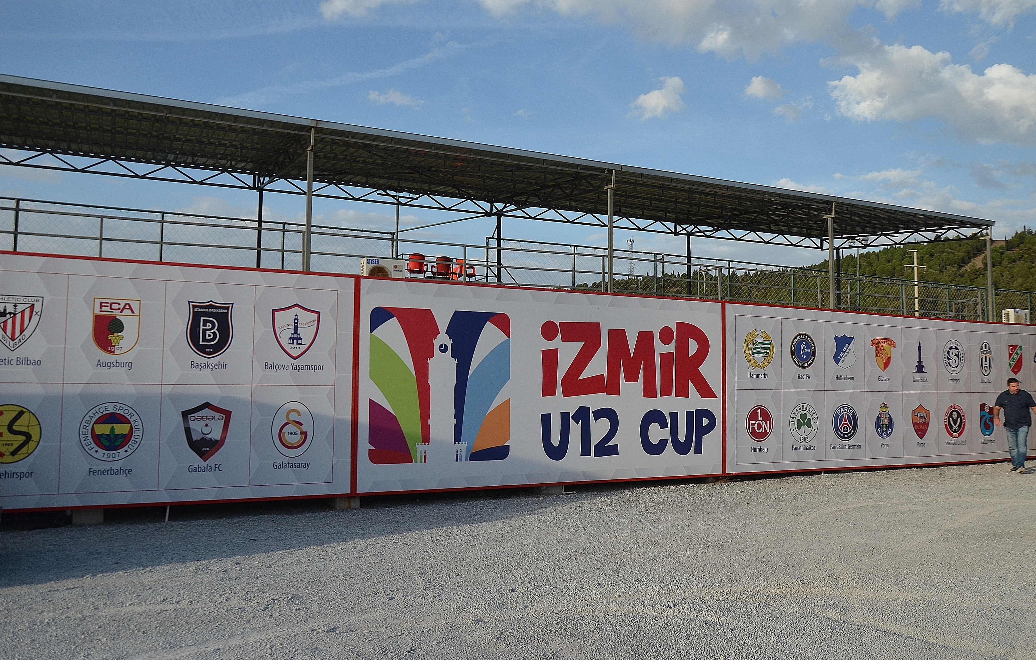 AltınorduvSelçuk-Efes Football Complex